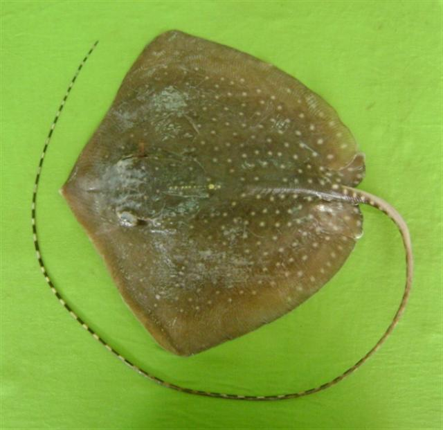 Himantura gerrardi from Karachi, Pakistan